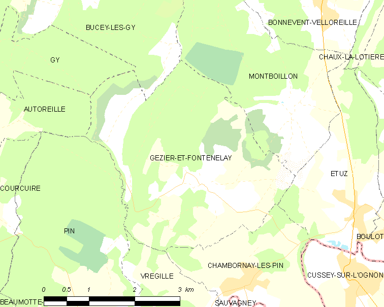 Map of French municipality